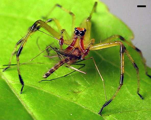 Male Lyssomanes viridis jumping spider feeding on a nematoceran from Greenville County, South Carolina, USA